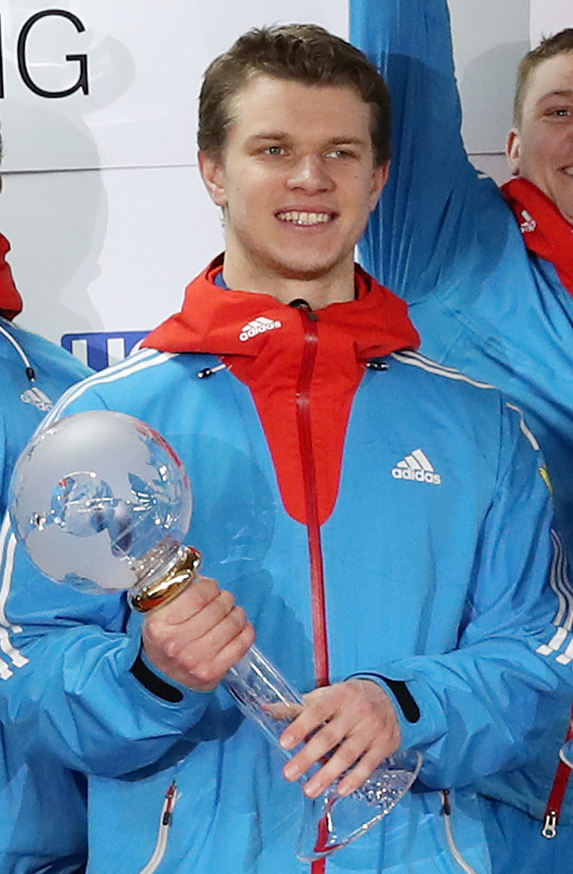 Alexey Zaytsev in Pyeongchang, IBSF World Cup 2016/17 finale